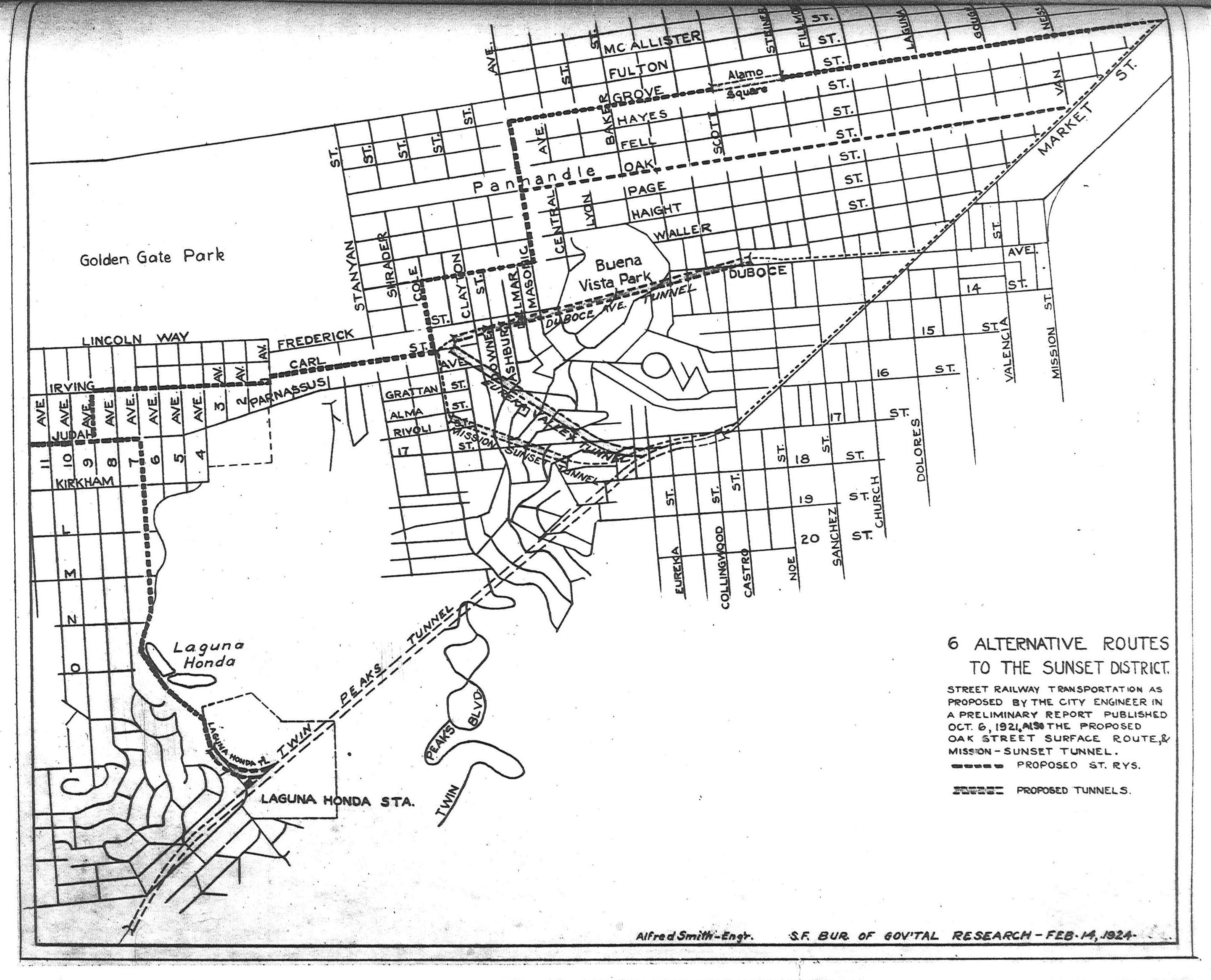 Alternate routes that the N Judah might have taken instead of the Duboce Tunnel. The report predicted that once the Sunset was fully built out, there would be five or six streetcar lines there, all routed through the tunnel. Predicted running time from 20th Avenue to Kearny: 26 minutes via Duboce, 31 minutes via the Mission-Sunset Tunnel. Actual schedule time today: 27 minutes, even with the Market Street Subway. The abandoned Eureka Station in the Twin Peaks Tunnel was built with the Mission-Sunset Tunnel in mind.